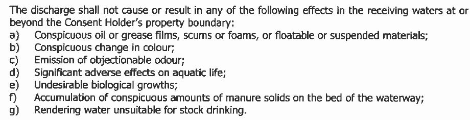 Dairy discharge creating water pollution